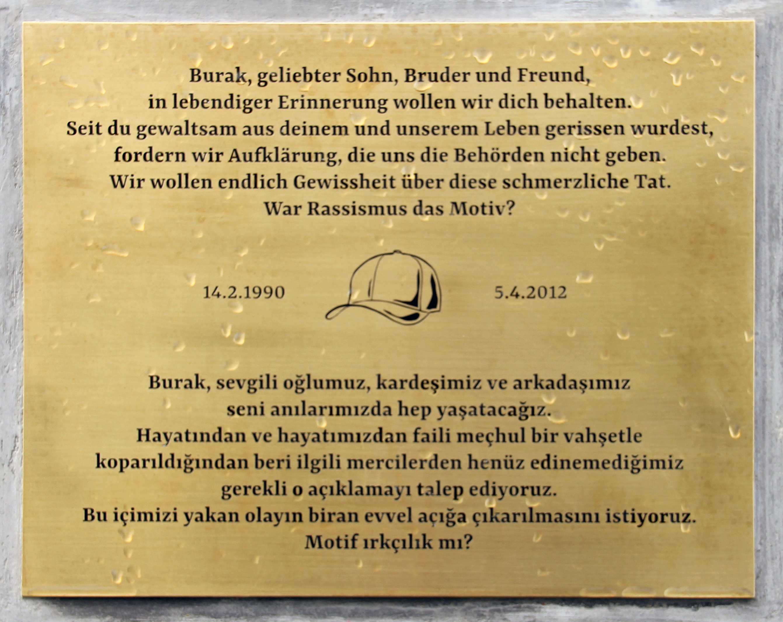 Memorial plaque, Burak Bektaş, Rudower Straße Ecke Möwenweg, Berlin-Buckow, Deutschland